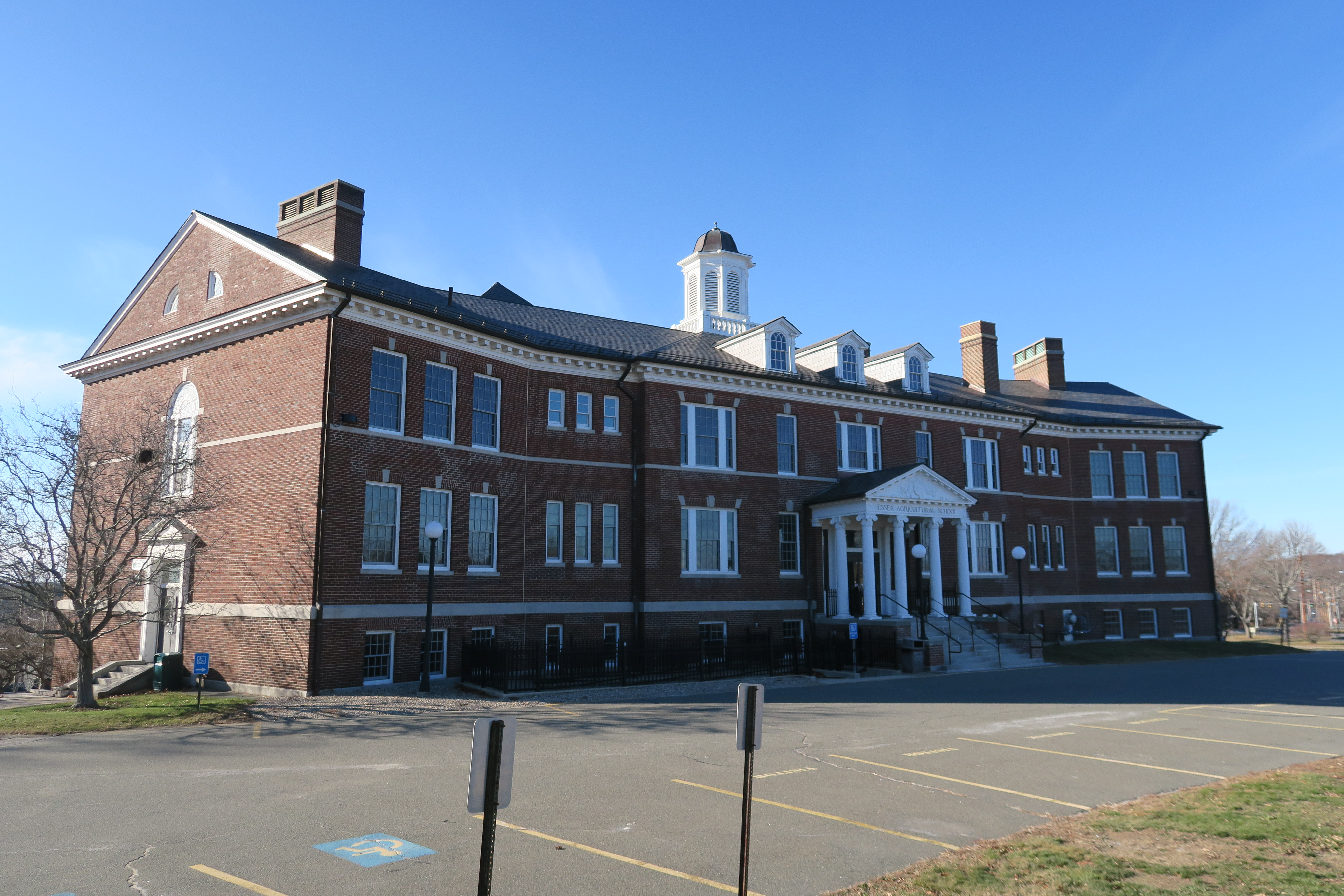 Essex Agricultural School, Hathorne Massachusetts